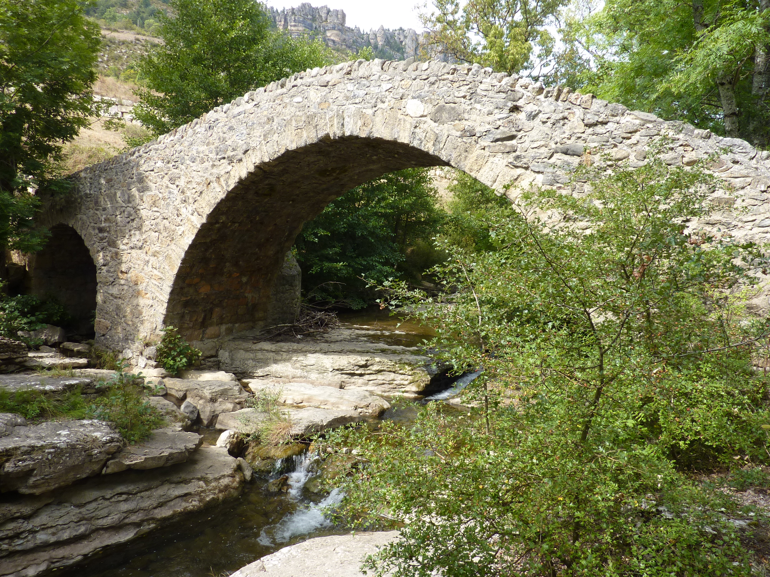 Pont de Six Liard, a middle age bridge over the Jonte. The name comes from the fee to be paid to cross the bridge